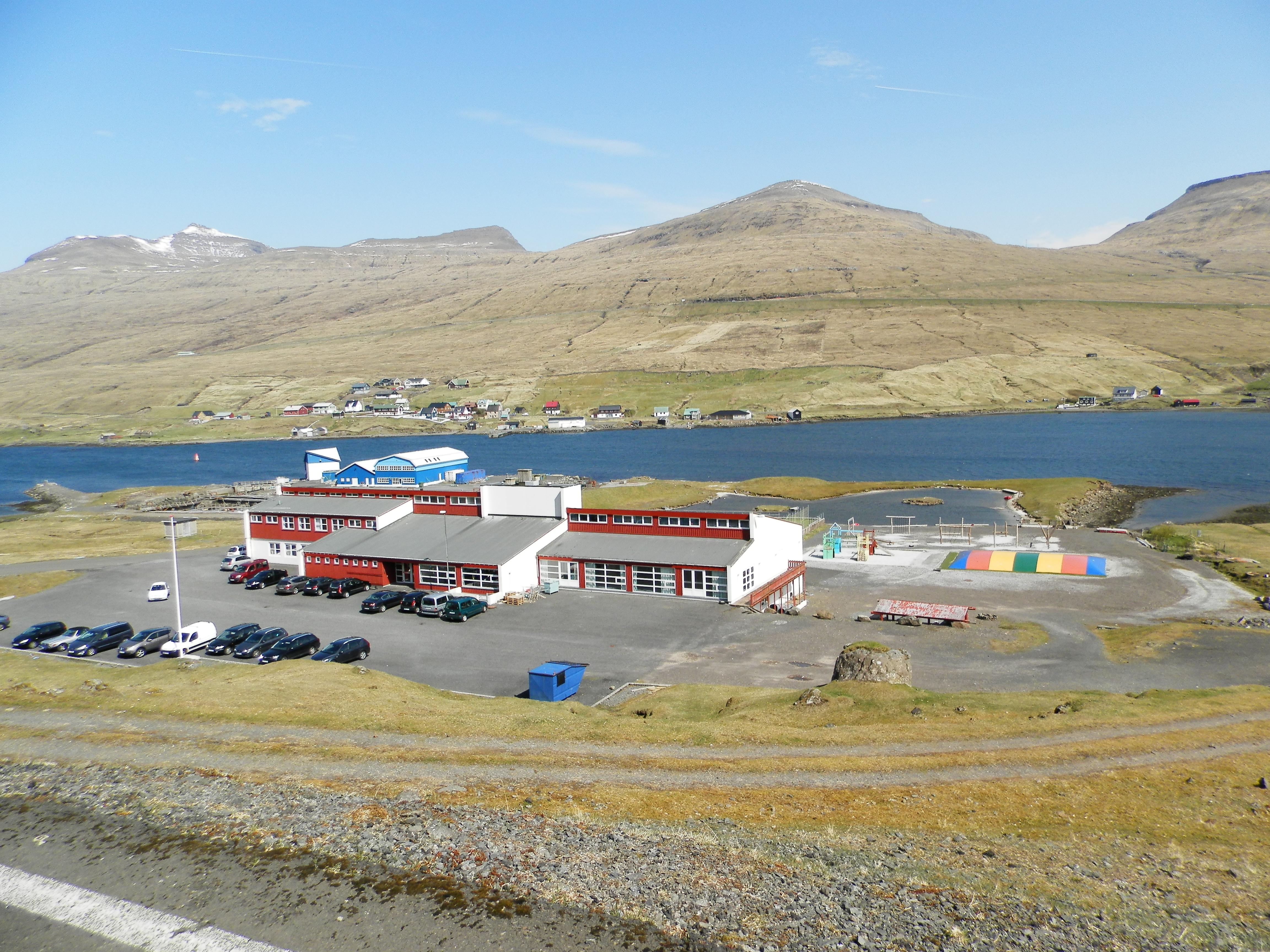 Nesvík, Streymoy, Faroe Islands in May 2013.